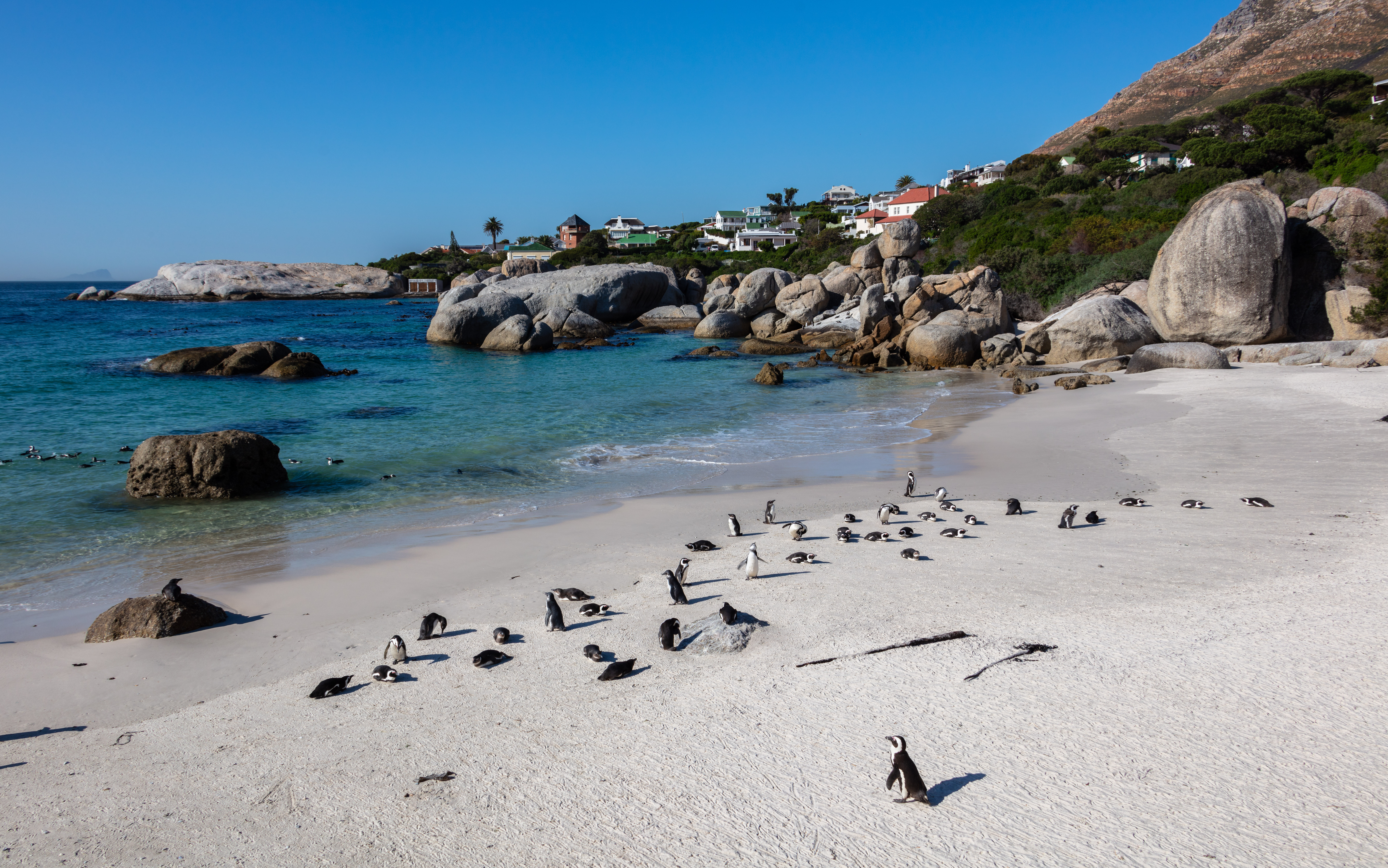 African penguins (Spheniscus demersus), Boulders Beach, Simon's Town, South Africa